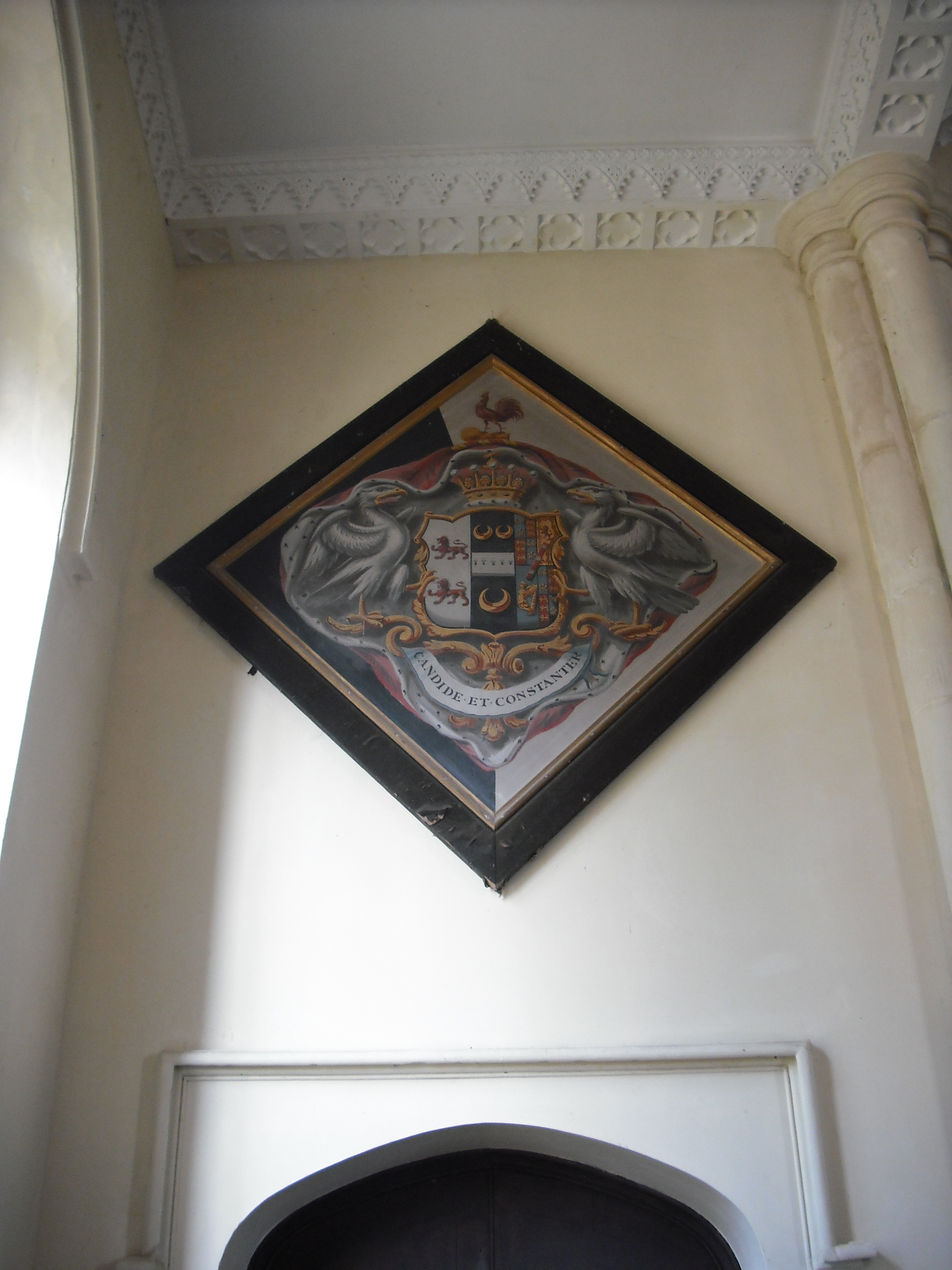 Hatchment inside St Mary Magdalene parish church, Croome d'Abitot, Worcestershire. George William Coventry, 8th Earl of Coventry (16 October 1784 – 15 May 1843), and his two wives Hon. Emma Susanna Lygon (m. 1808; her death 1810) Lady Mary Beauclerk (m. 1811; his death 1843)